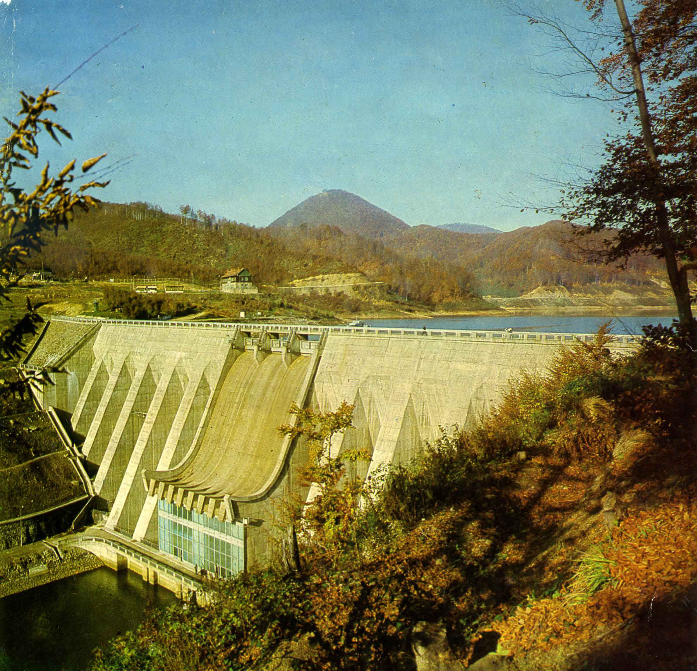 Strâmtori dam on the Firiza river in Romania